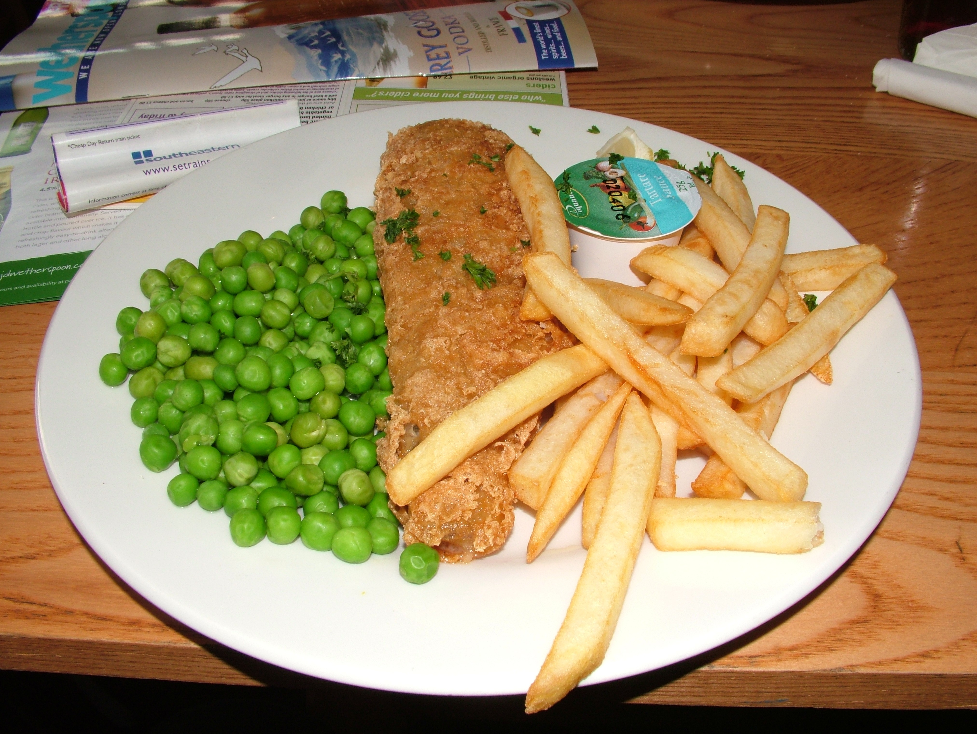 Fish and chips in a Pub in London November 2005